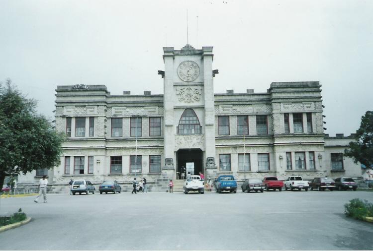 Personal photo taken while in Guatemala. The San Marcos Department administration Building. It is also known as Palacio Maya.